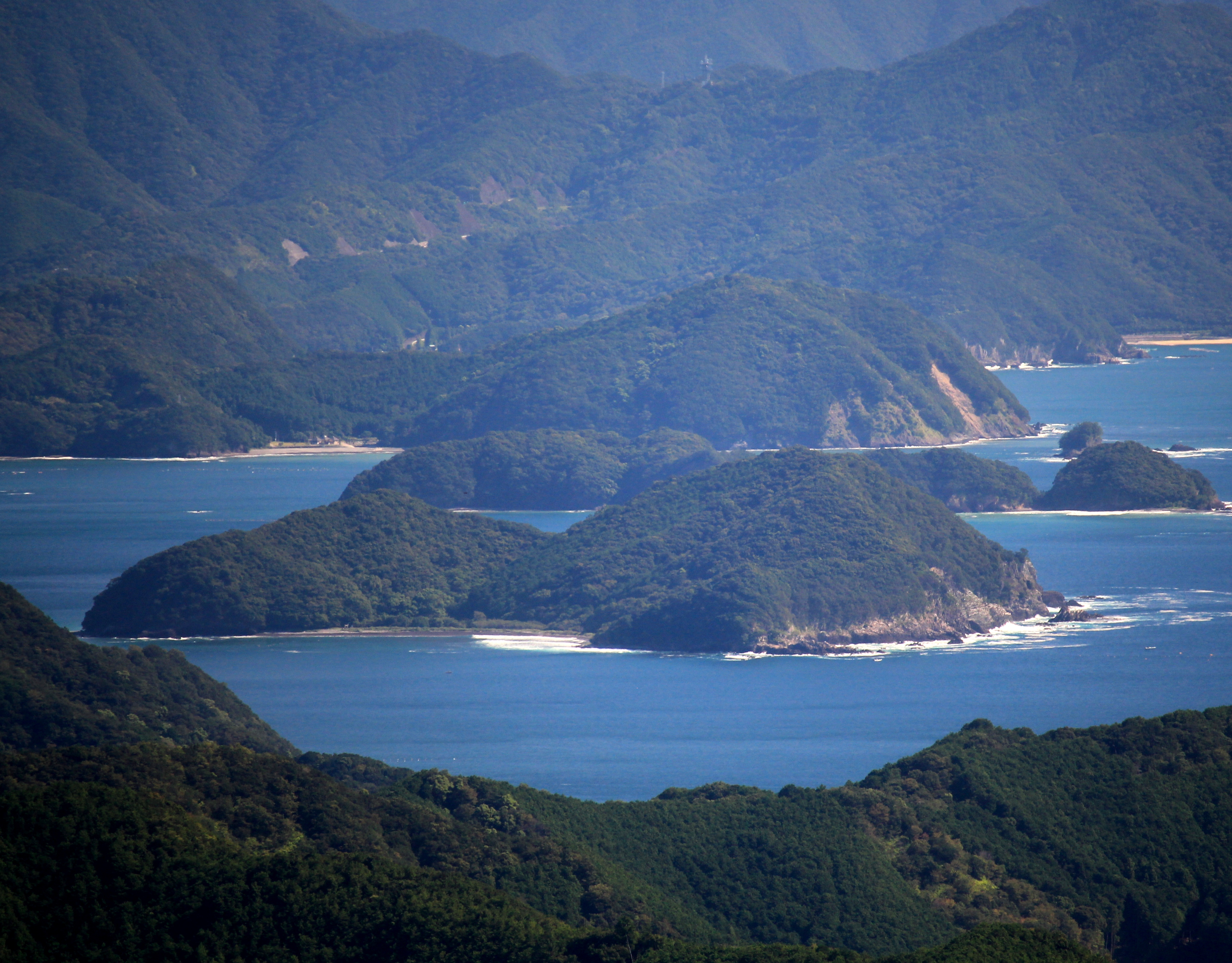 Suzu Island seen from Ochoboiwa on Mount Tengura, in Mie prefecture, Japan.